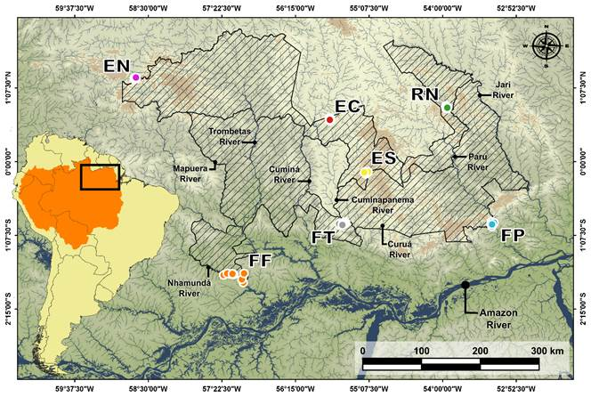 Map of the study area in the southern Guiana Shield, showing the tributaries of the Amazonas River in the Northern Pará Drainage System (NPDS), in northern Brazil. The five state protected areas surveyed in the present study are hatched. The dots represent each of the sampling sites in the NPDS. FF = FLOTA Faro; EN = ESEC G-P North; EC = ESEC G-P Centre; FT = FLOTA Trombetas; ES = ESEC G-P South; RM = REBIO Maicuru; FP = FLOTA Paru.